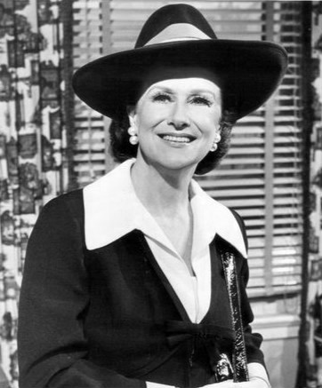 Photo of Ruth Warwick as Phoebe Tyler from the television daytime drama All My Children.